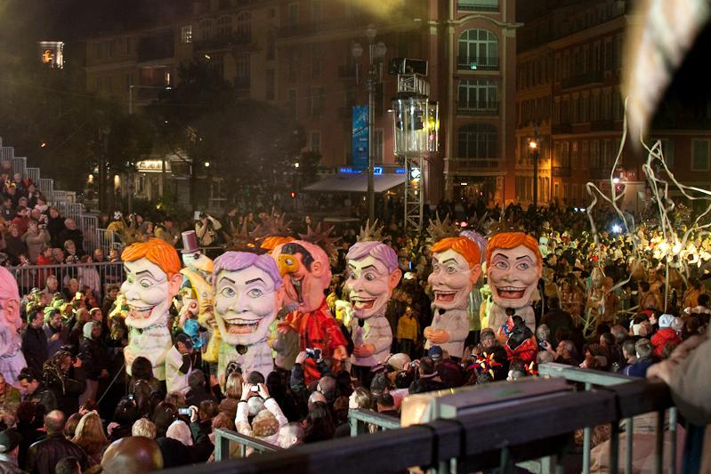 View of the corso of Nice Carnaval 2009 on the Place Masséna in Nice, France. In the middle : some « grosses têtes ».